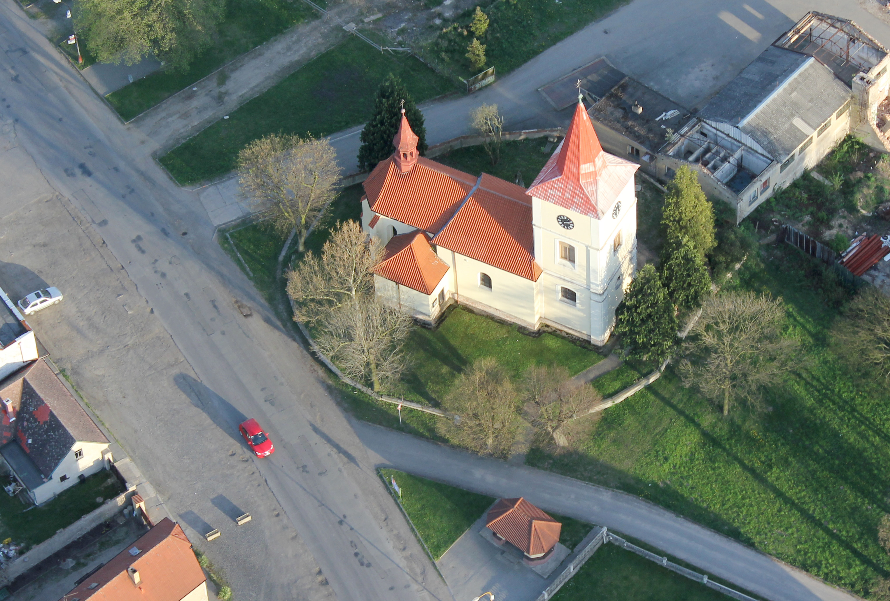 aerial photo